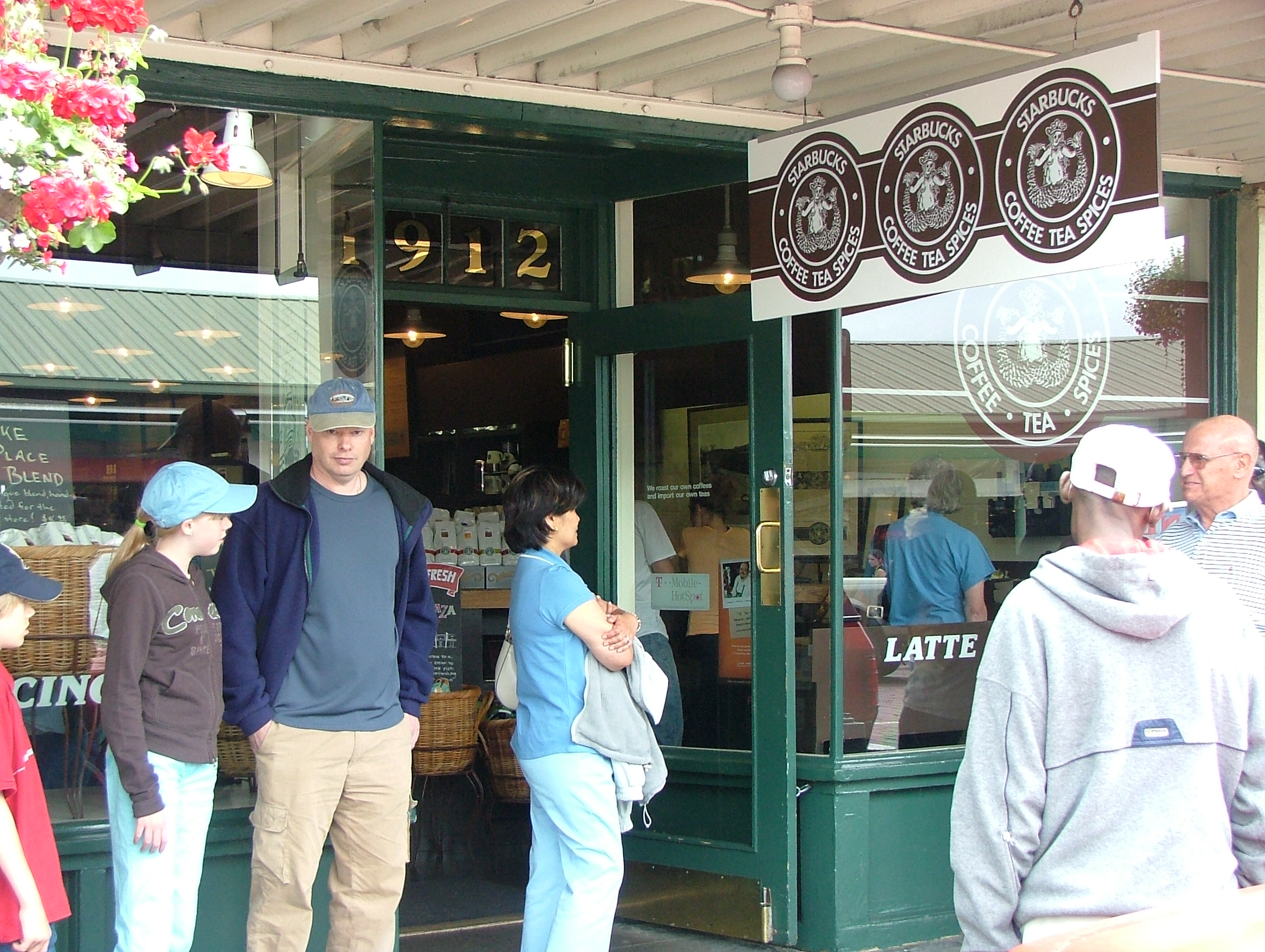 First Starbucks at Pike Place